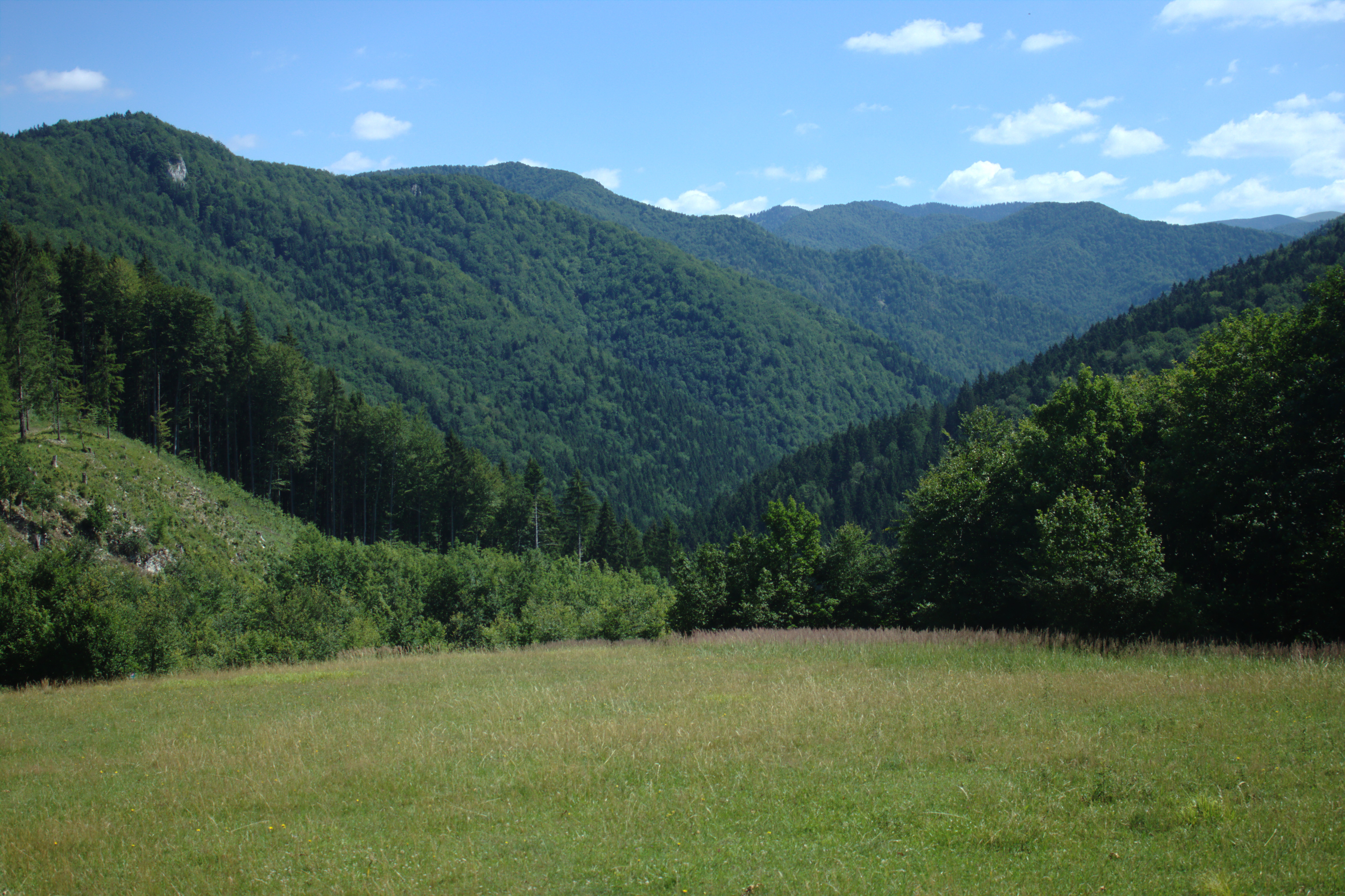 Žarnovická Dolina near Čremošné, SK